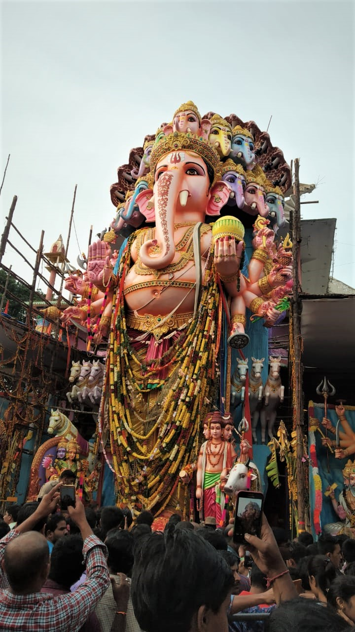 I have taken this photo I visited on 12 Sept 2019 Khairatabad ganesh utsav 2019 - Ganesha Idol